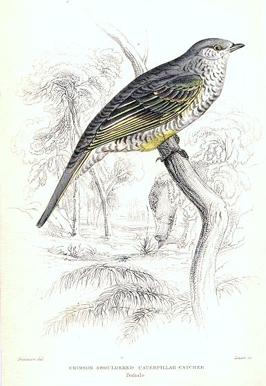 Crimson Shouldered Caterpillar Catcher = Campephaga phoenicea (Red-shouldered Cuckooshrike) - Female